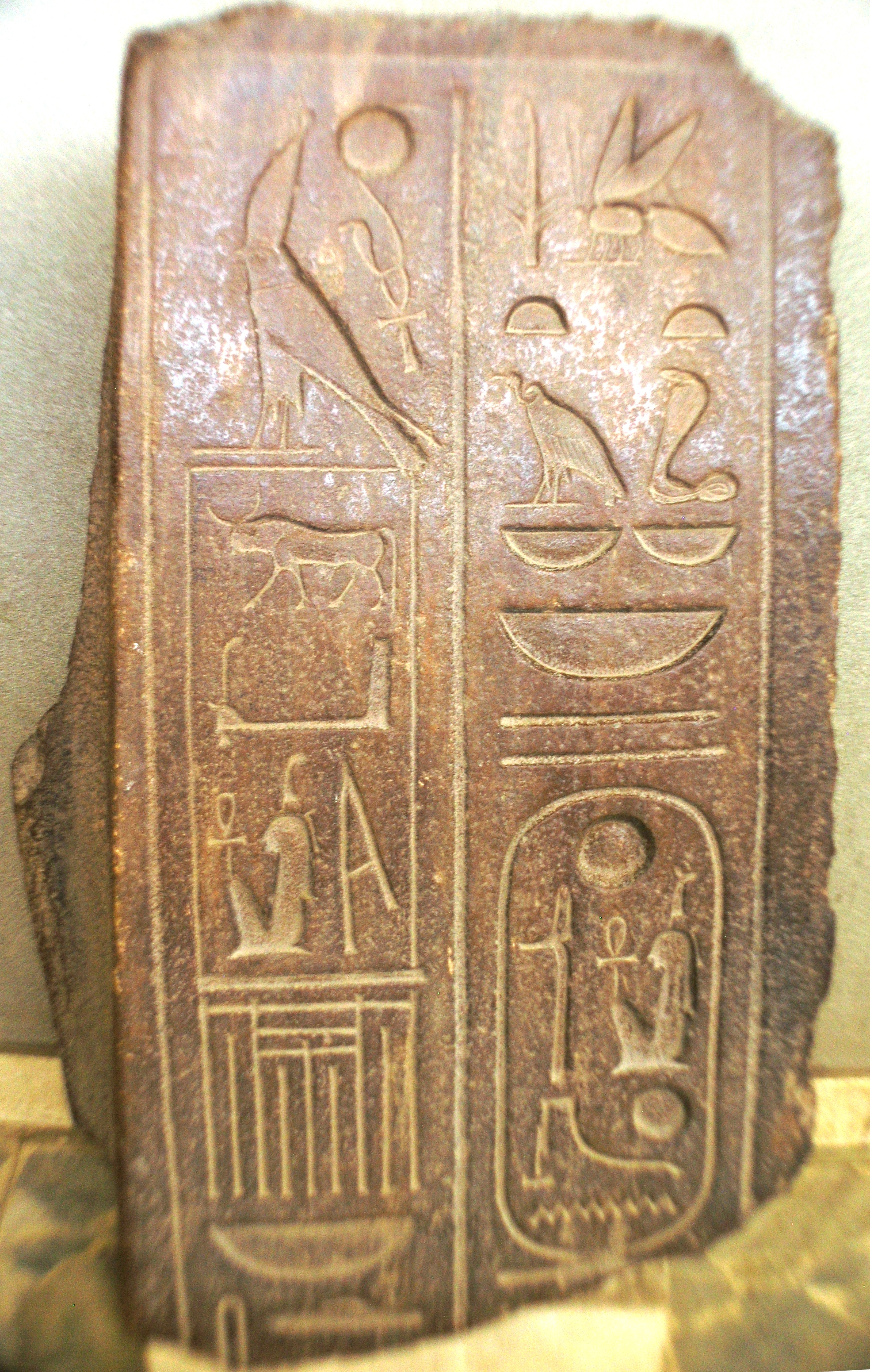 Memphis - Ramses Colossus room - hieroglyphic panel with cartouche